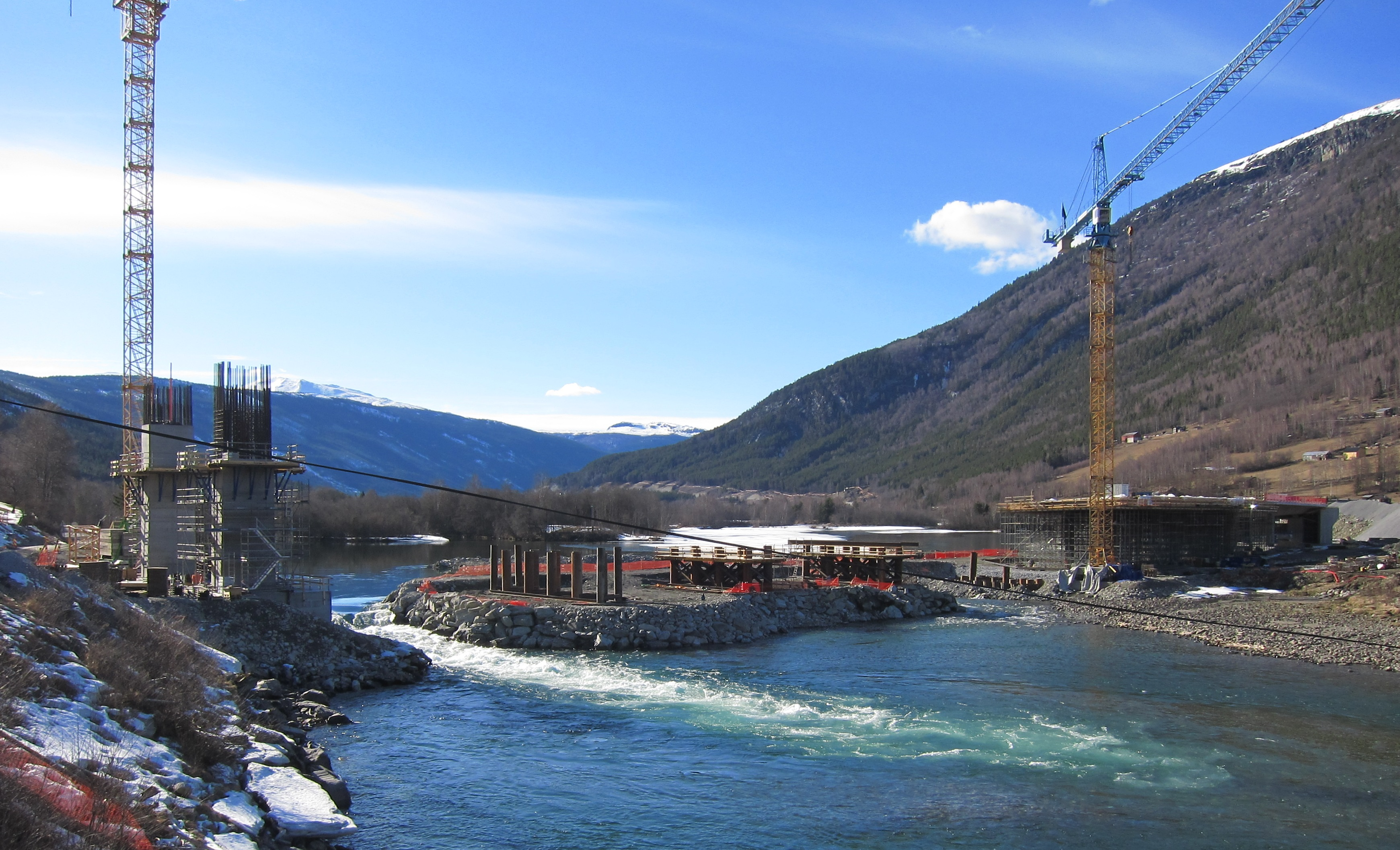 Lågen bridge under construction, april 2015.